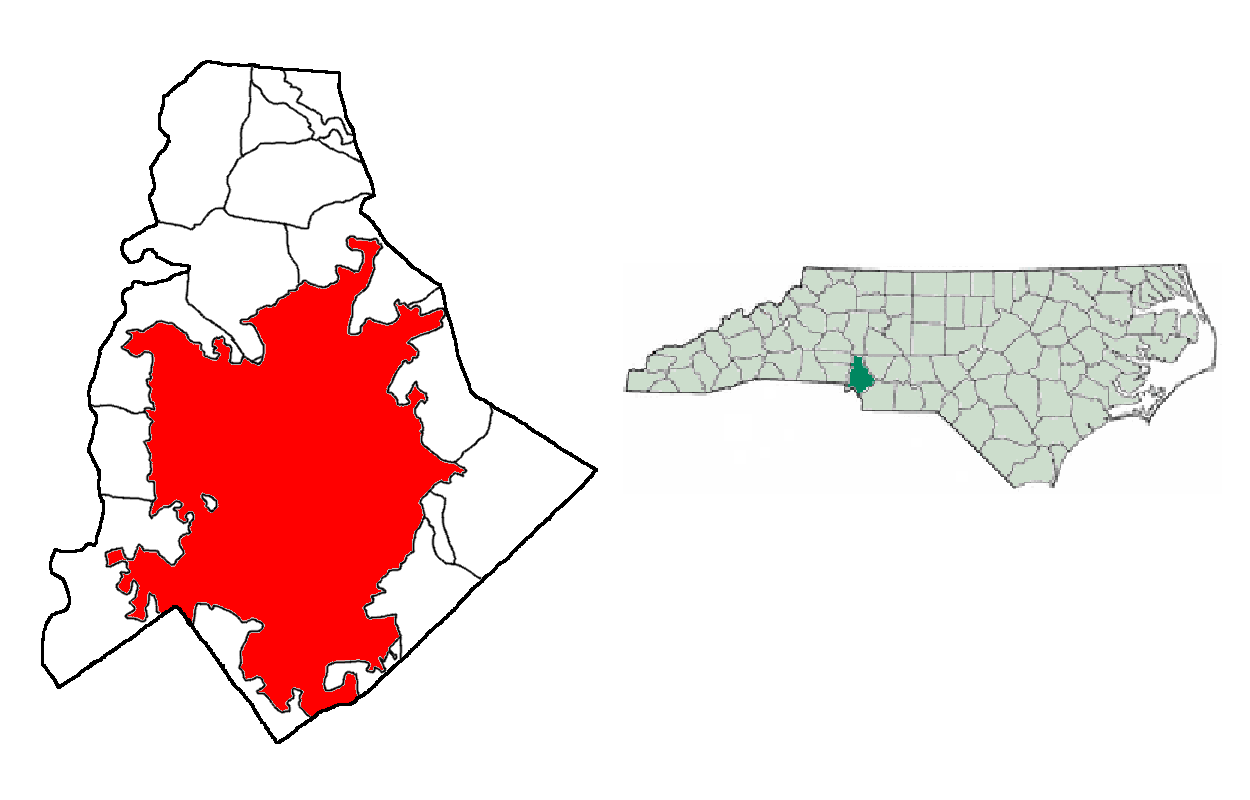 Charlotten in Mecklenburg County, North Carolina